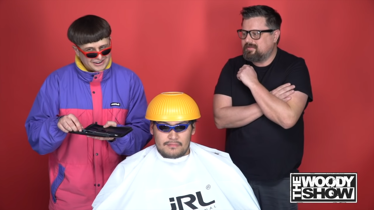 Screenshot from Oliver Tree on the Woody Show in February 2019